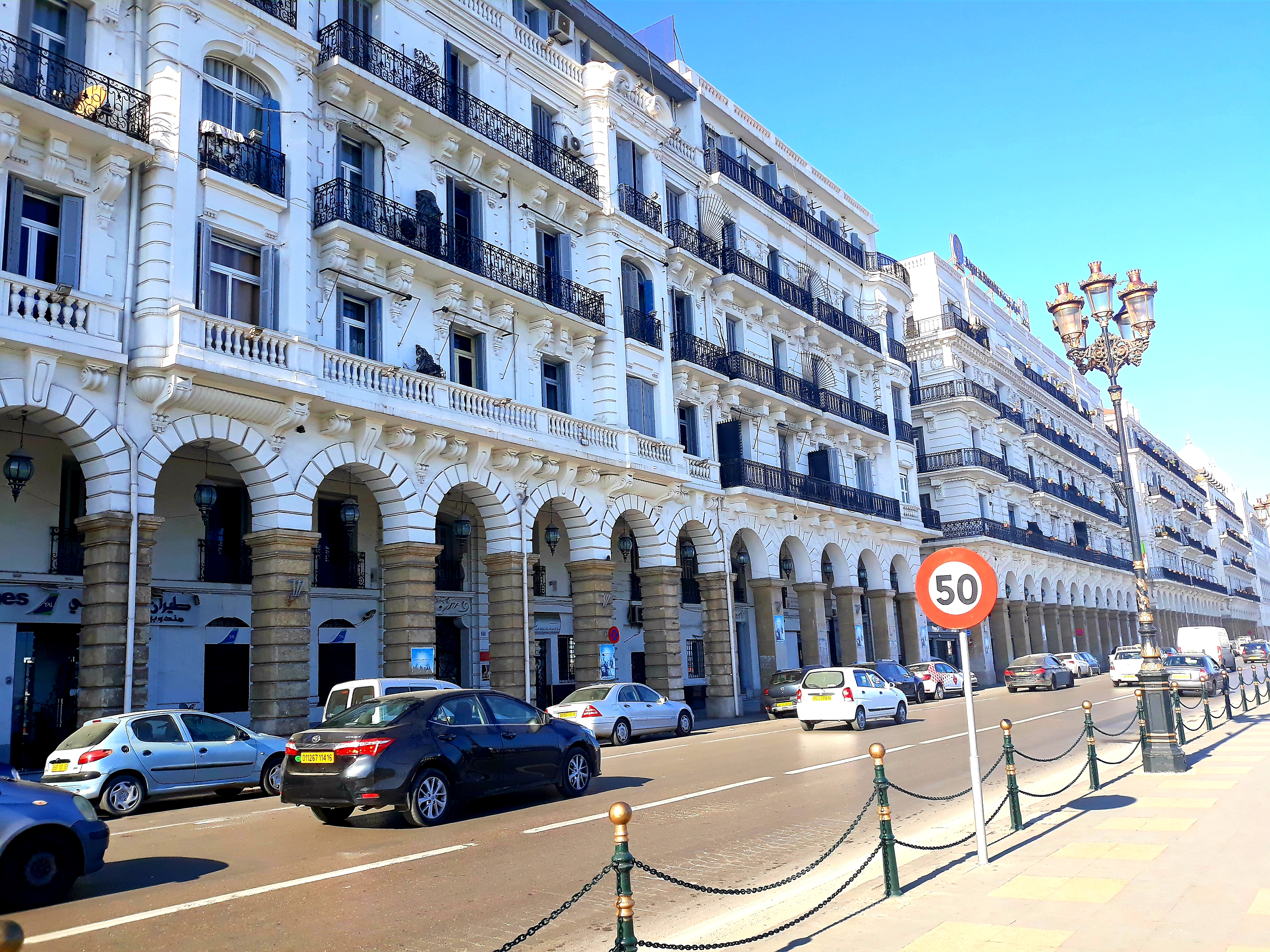 This is an image with the theme "Africa on the Move or Transport" from: Algeria